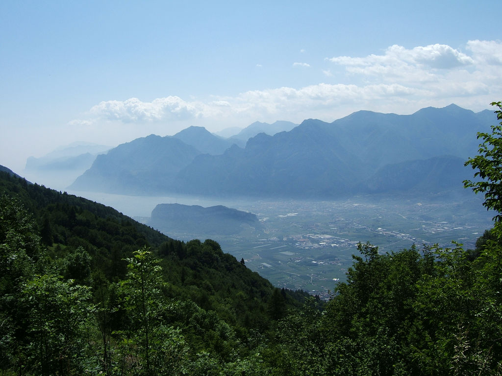 Arco, Trentino-Alto Adige, Italy